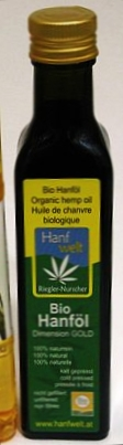 Hemp oil bottle